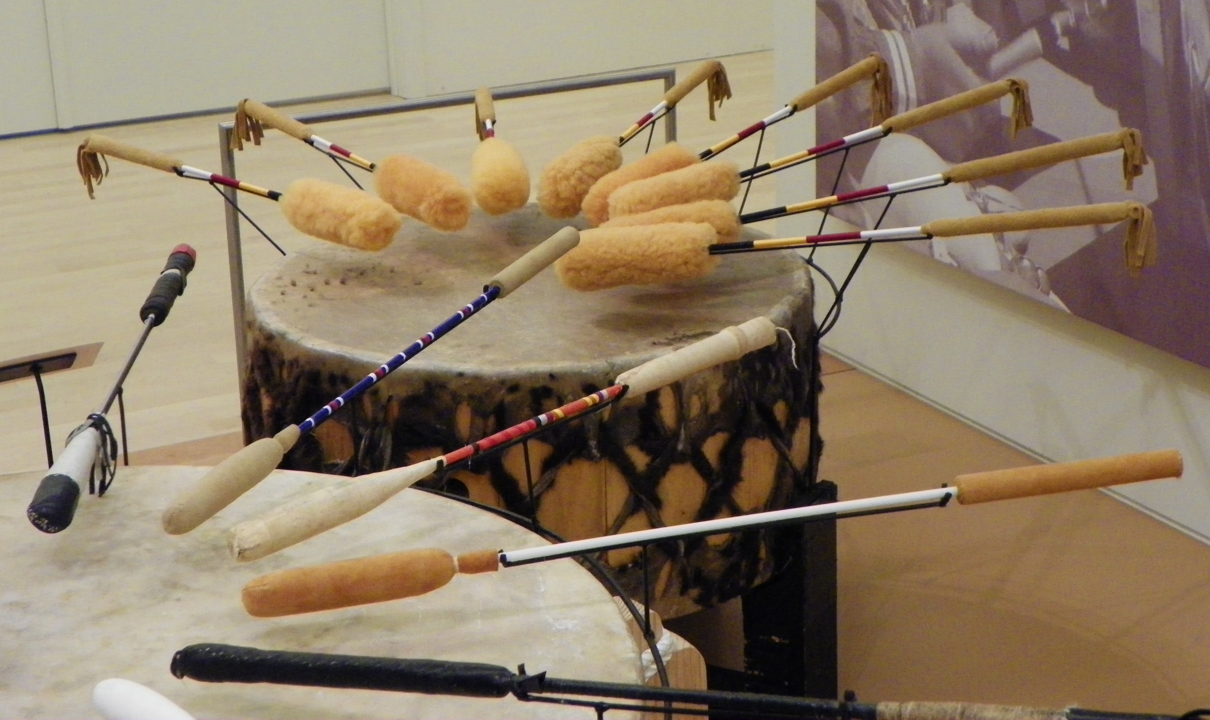 Photograph of musical instrument(s) taken at the Musical Instrument Museum (Phoenix) on 2011-04-26.